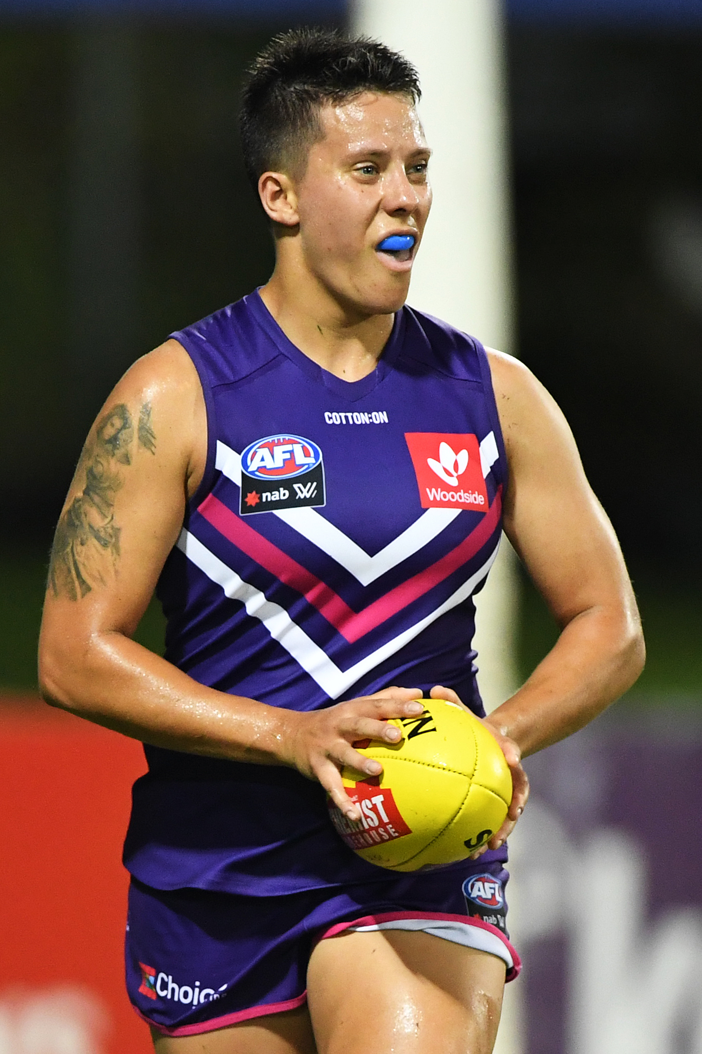 Evangeline Gooch of Fremantle during the 2019 AFL Women's practice match between the Adelaide Football Club and Fremantle Football Club at TIO Stadium on January 19, 2019 in Darwin Australia.